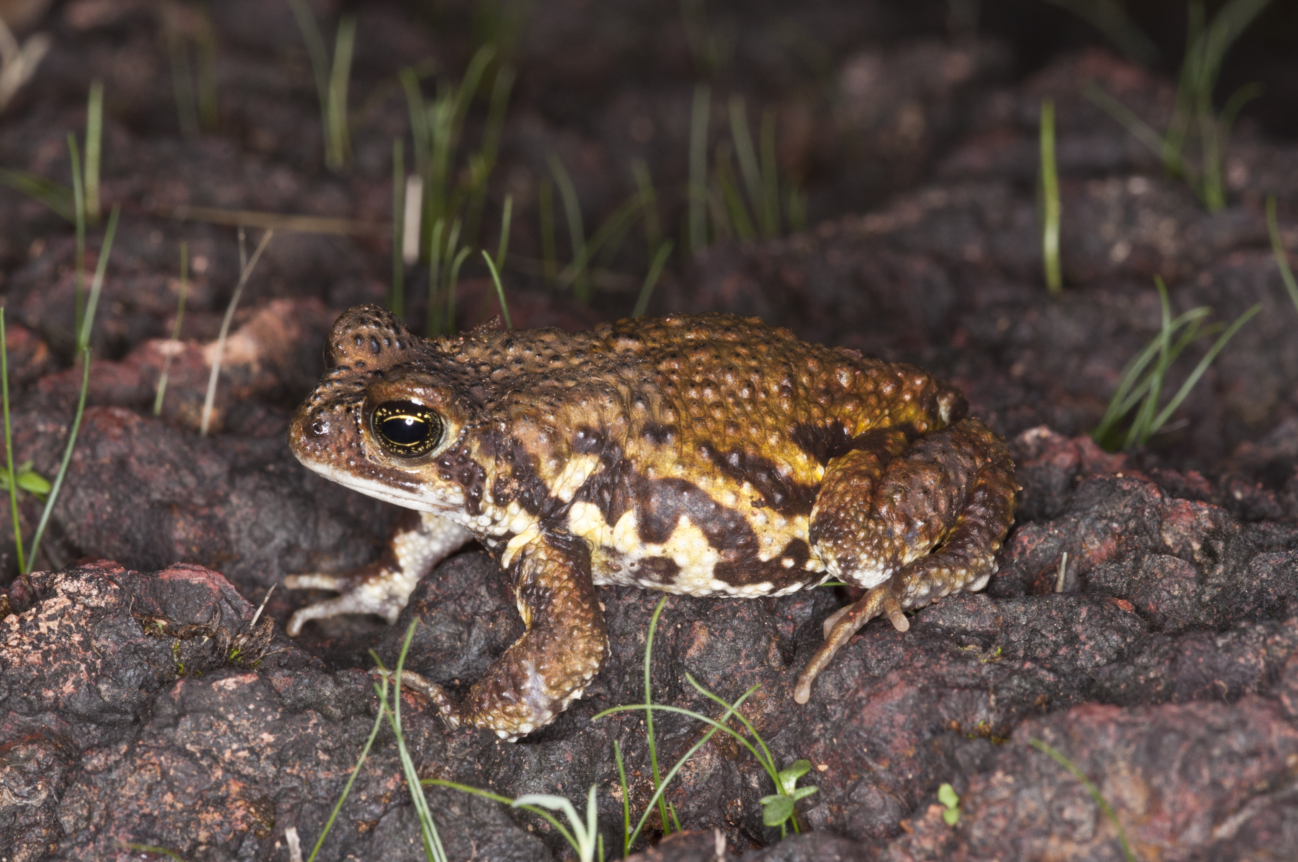 Xanthophryne tigerina, sometimes known as the Amboli toad.